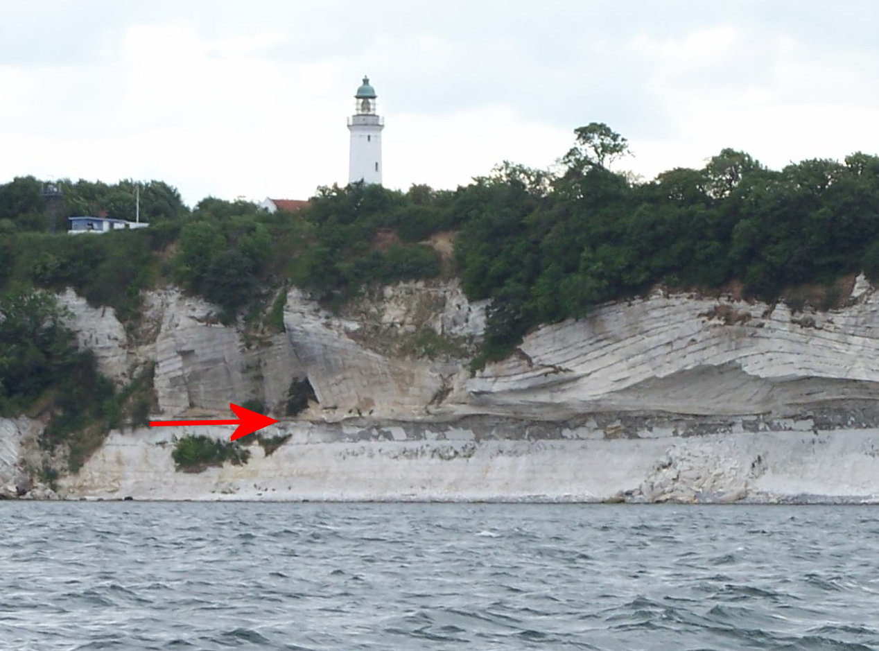 Stevns Cliffs Davvisámegiella: Stevns Klint